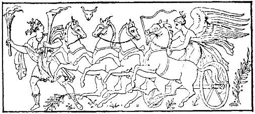 Eos driving a four-horse chariot up to Artemis Fosforos. From an antique vase.